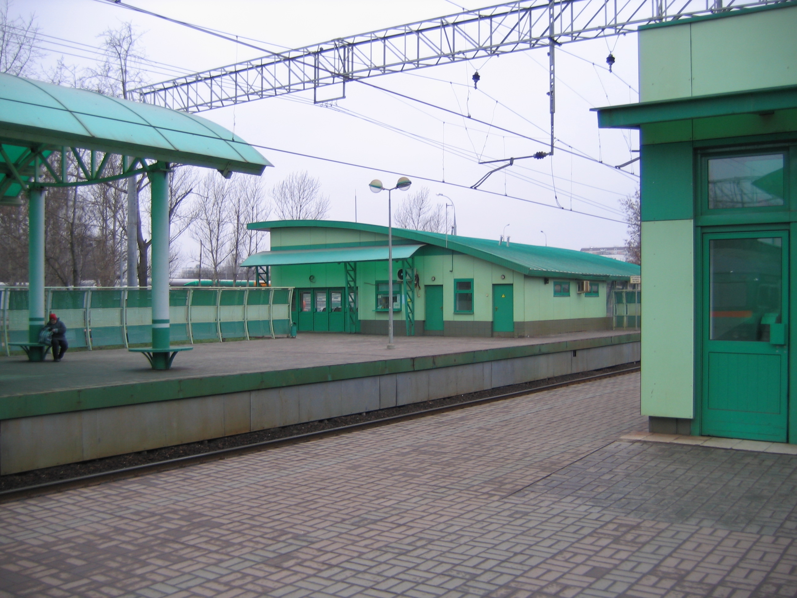 Veshnyaki railway station in Moscow, Russia